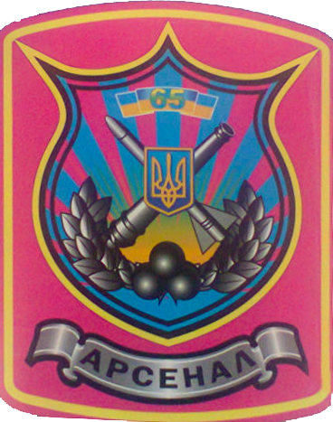 65th arsenal emblem (Ukraine)